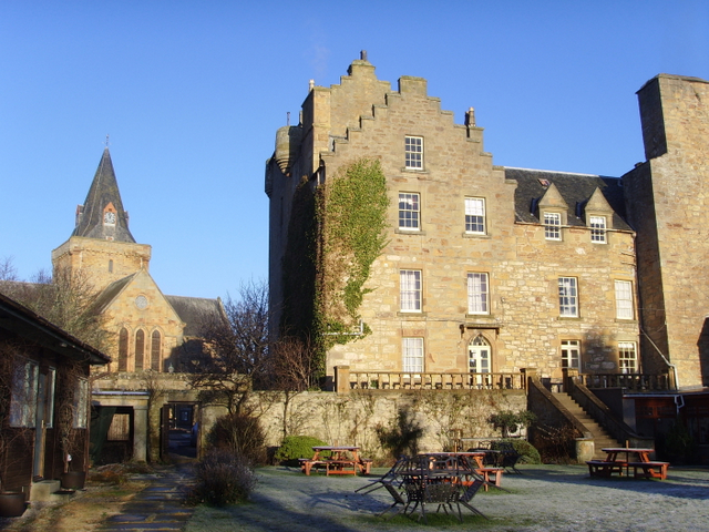 15th Century Dornoch Castle Hotel 12th Century Cathedral in background